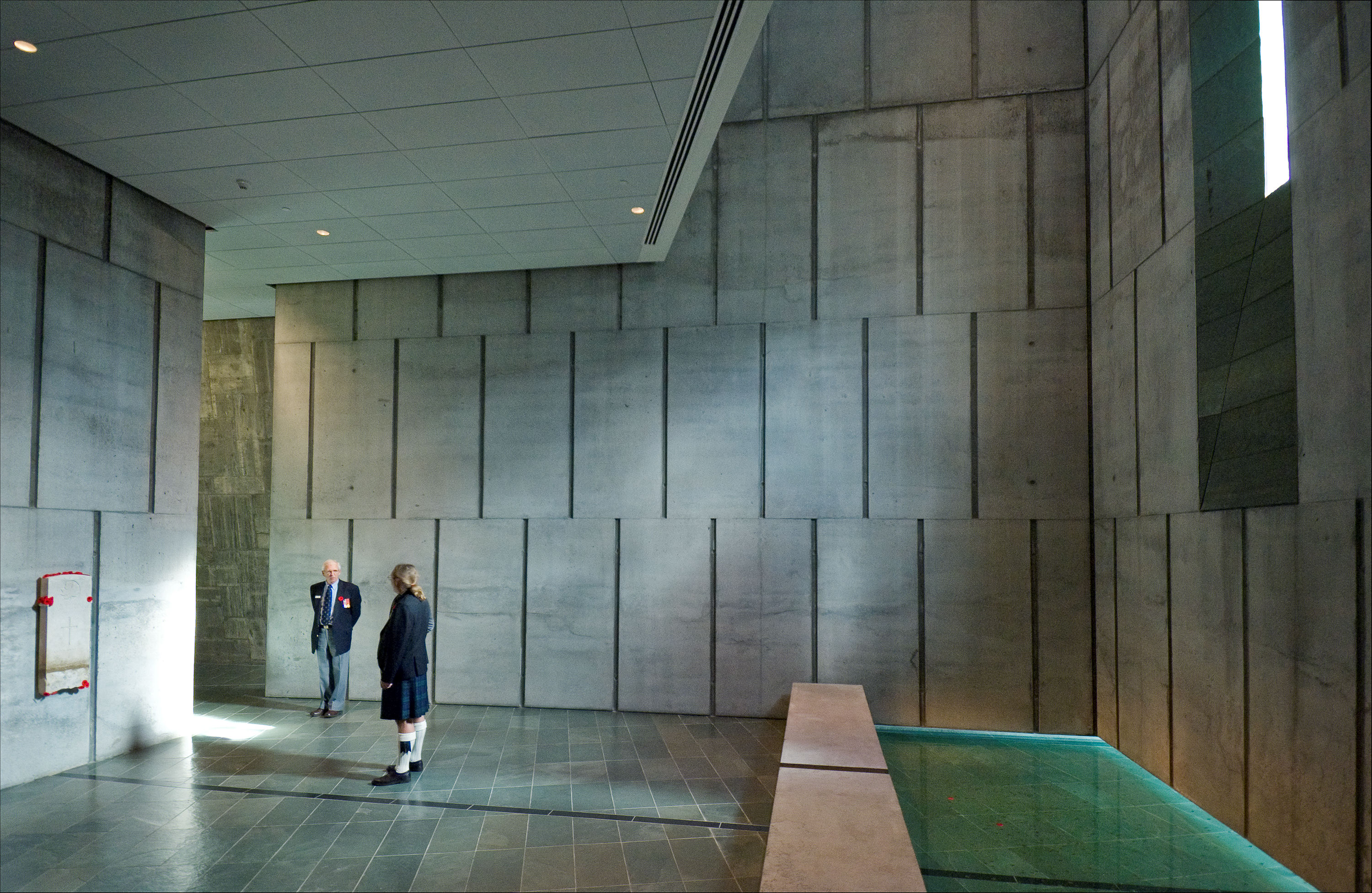 An image of the Memorial Hall of the CWM